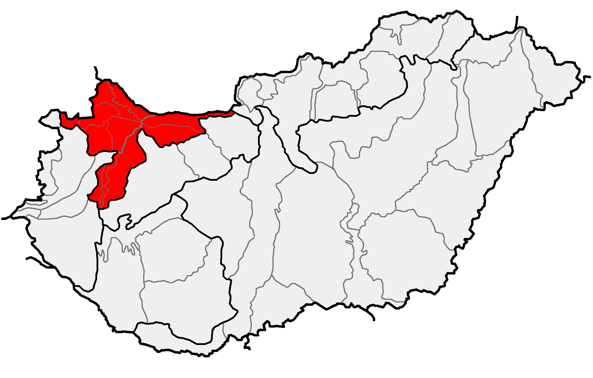 Location of geographical macroregion of Kisalföld (red) within subdivisions of Hungary.